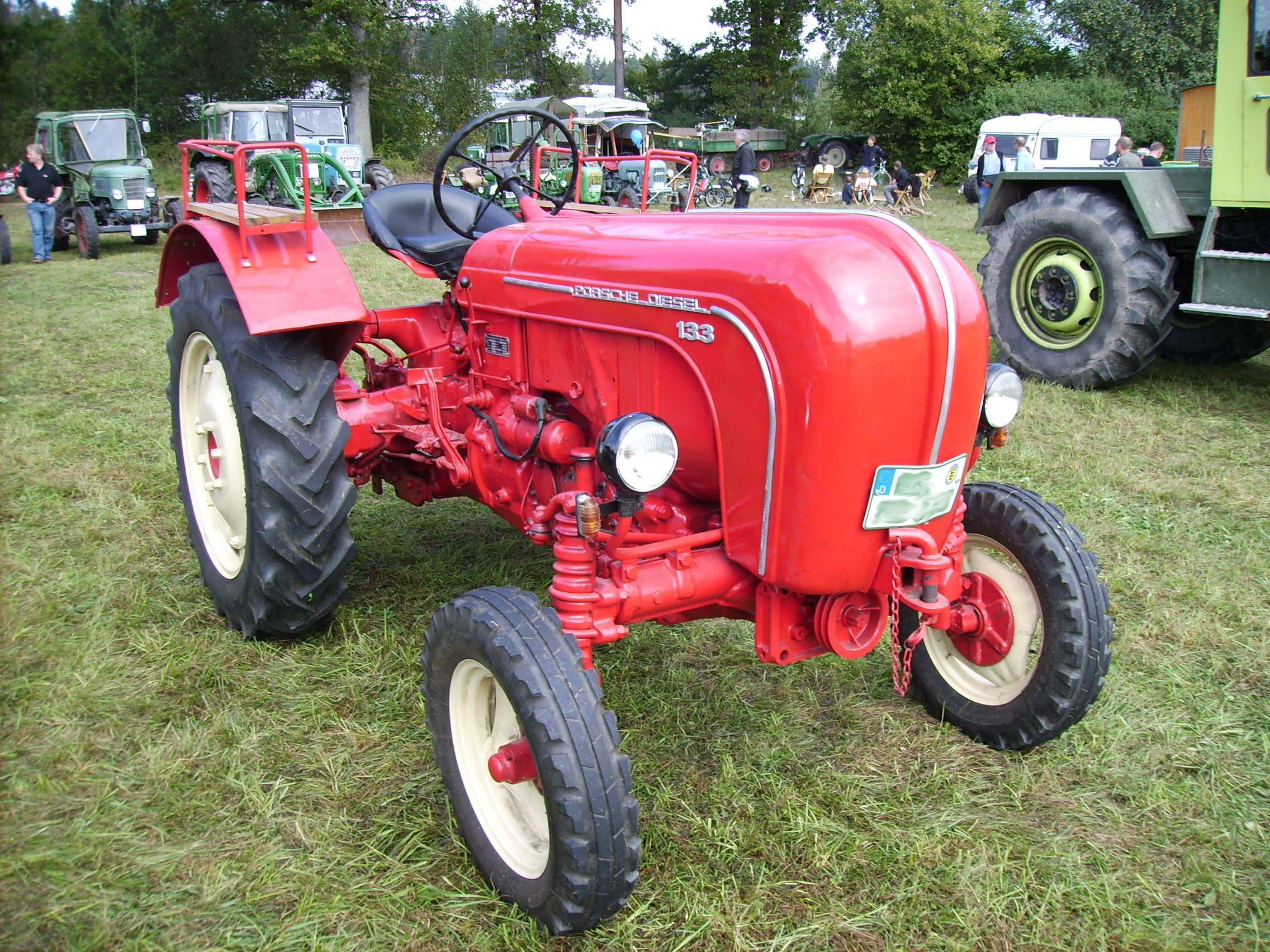 Porsche-Diesel P133, 33 HP